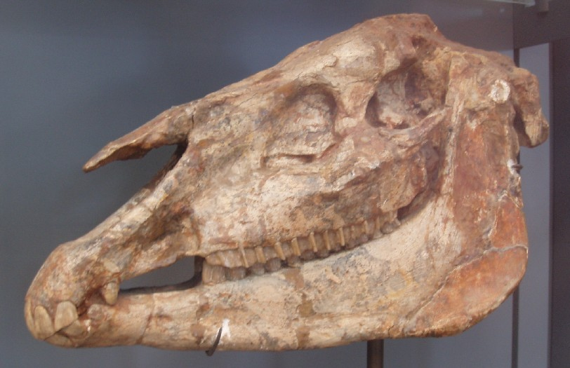 Skull of Hipparion gracile, an early horse.